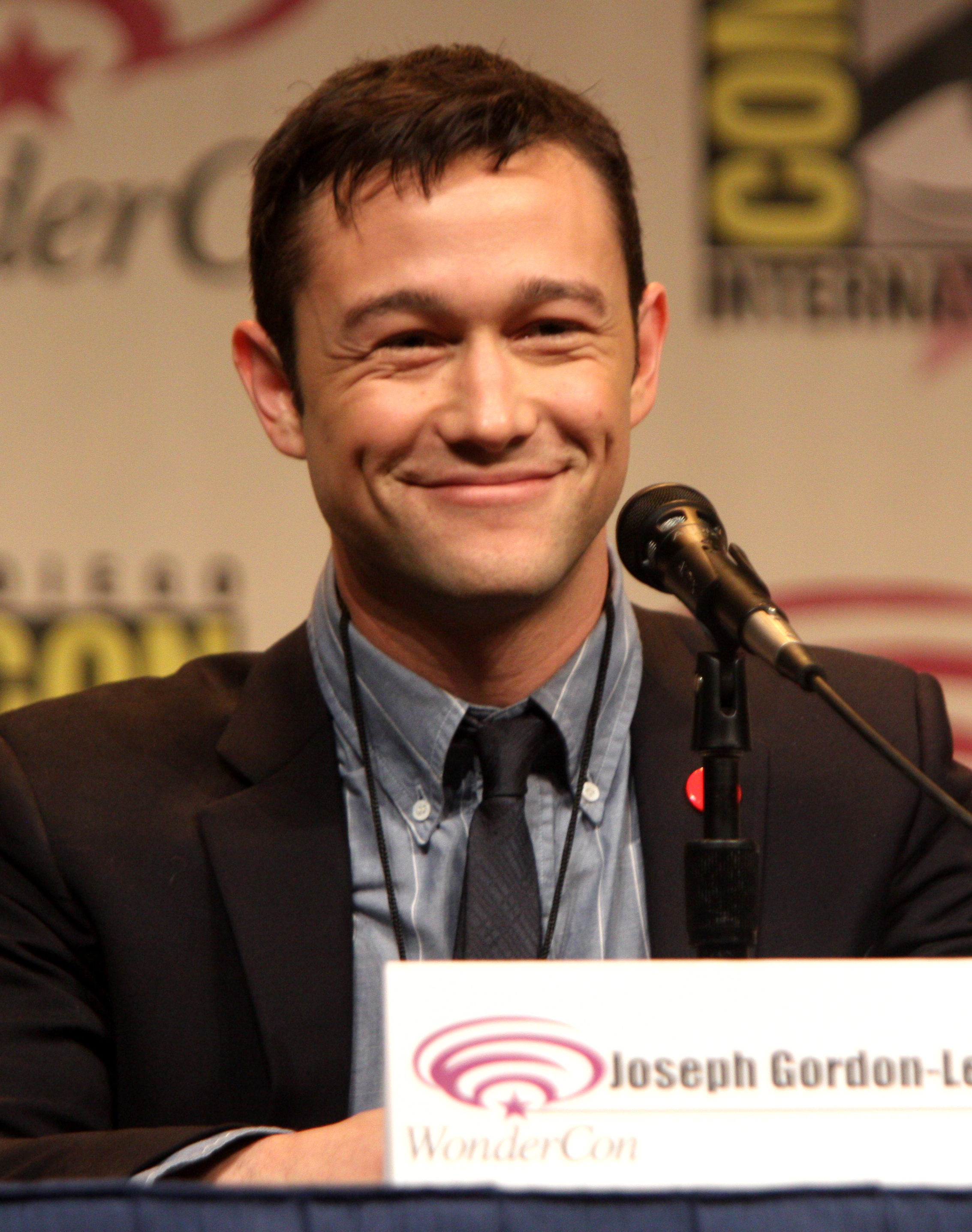 Joseph Gordon-Levitt speaking at Wondercon 2012 in Anaheim, California on March 17, 2012.